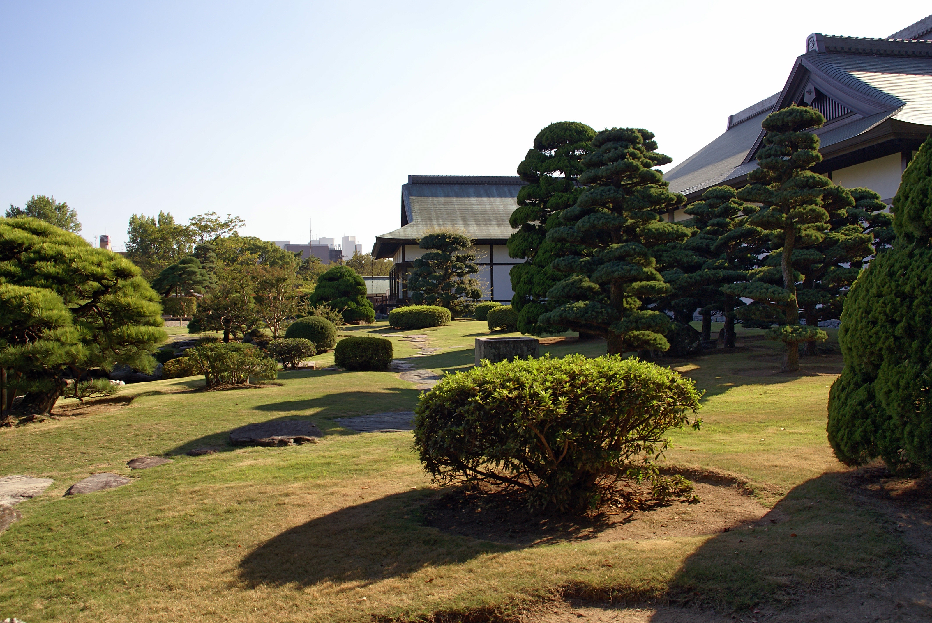 Tokushima Castle Lordly Front Palace Garden in Tokushima, Tokushima prefecture, Japan